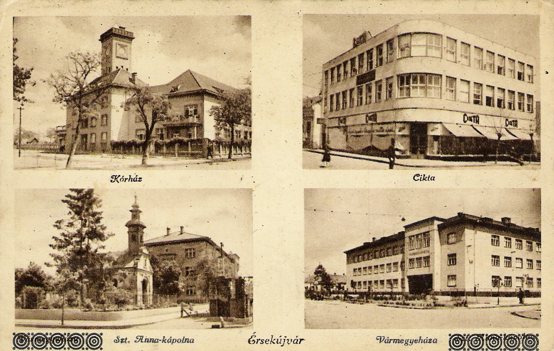 Érsekújvár (Nové Zámky) after first Vienna decision as part of Hungary in 1940. The inscription is (from up left picture to right down): Hospital (presently the old hospital), Cikta, St. Anna Chapel, County office (presently the District office)